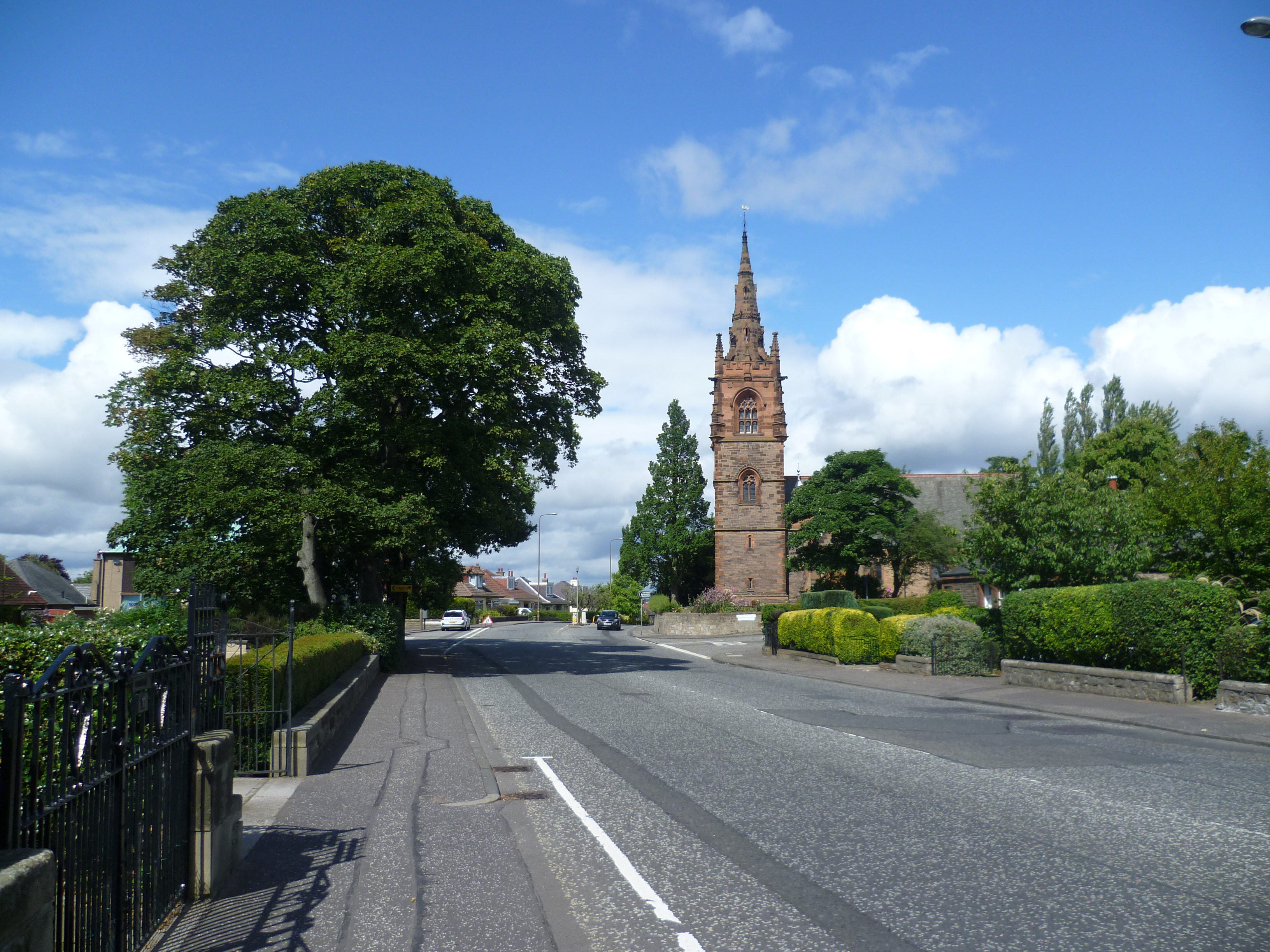 Craiglockhart Avenue, Edinburgh